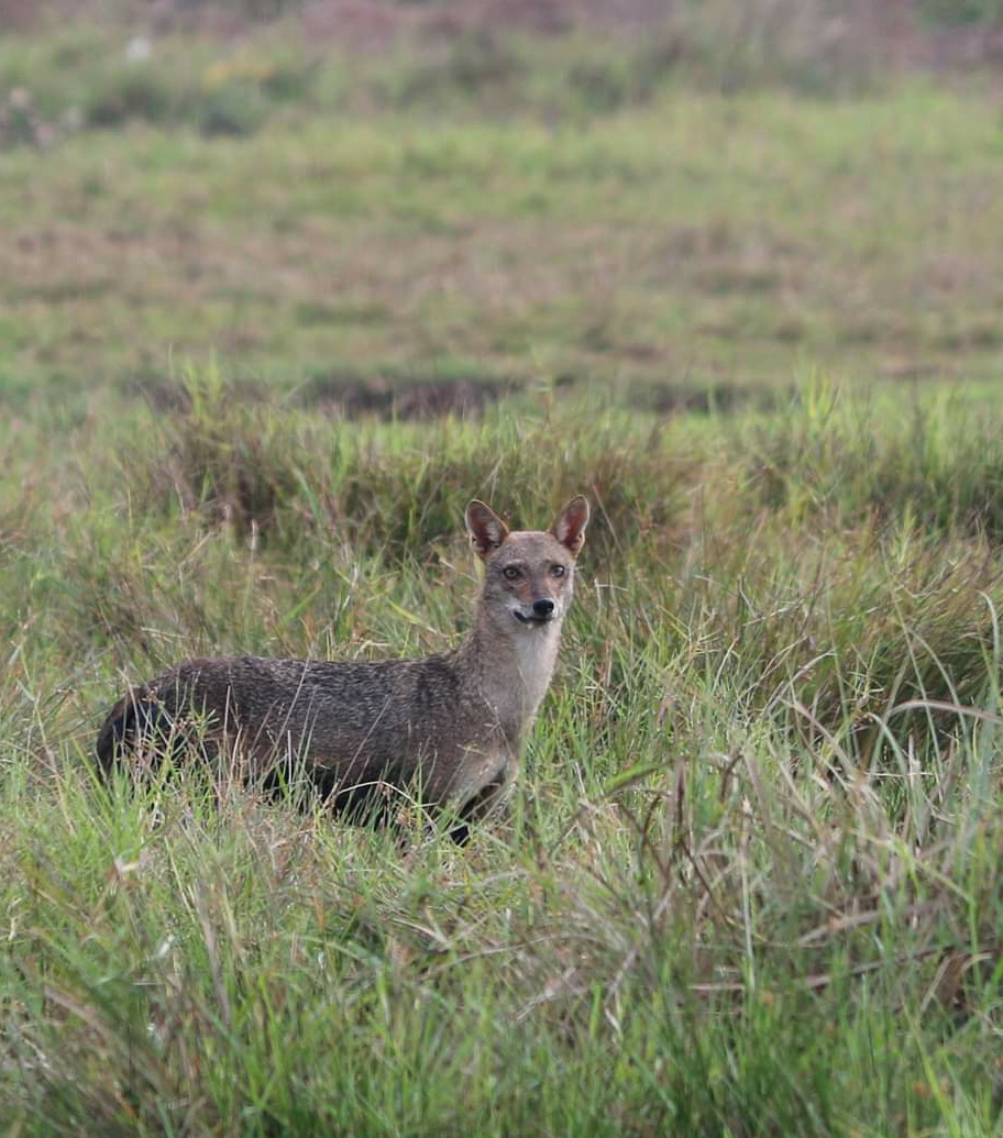 കുറുനരി,Golden Jackal or Indian Jackal, canis aureus indicus